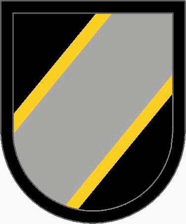 Joint Special Operations Command Beret Flash